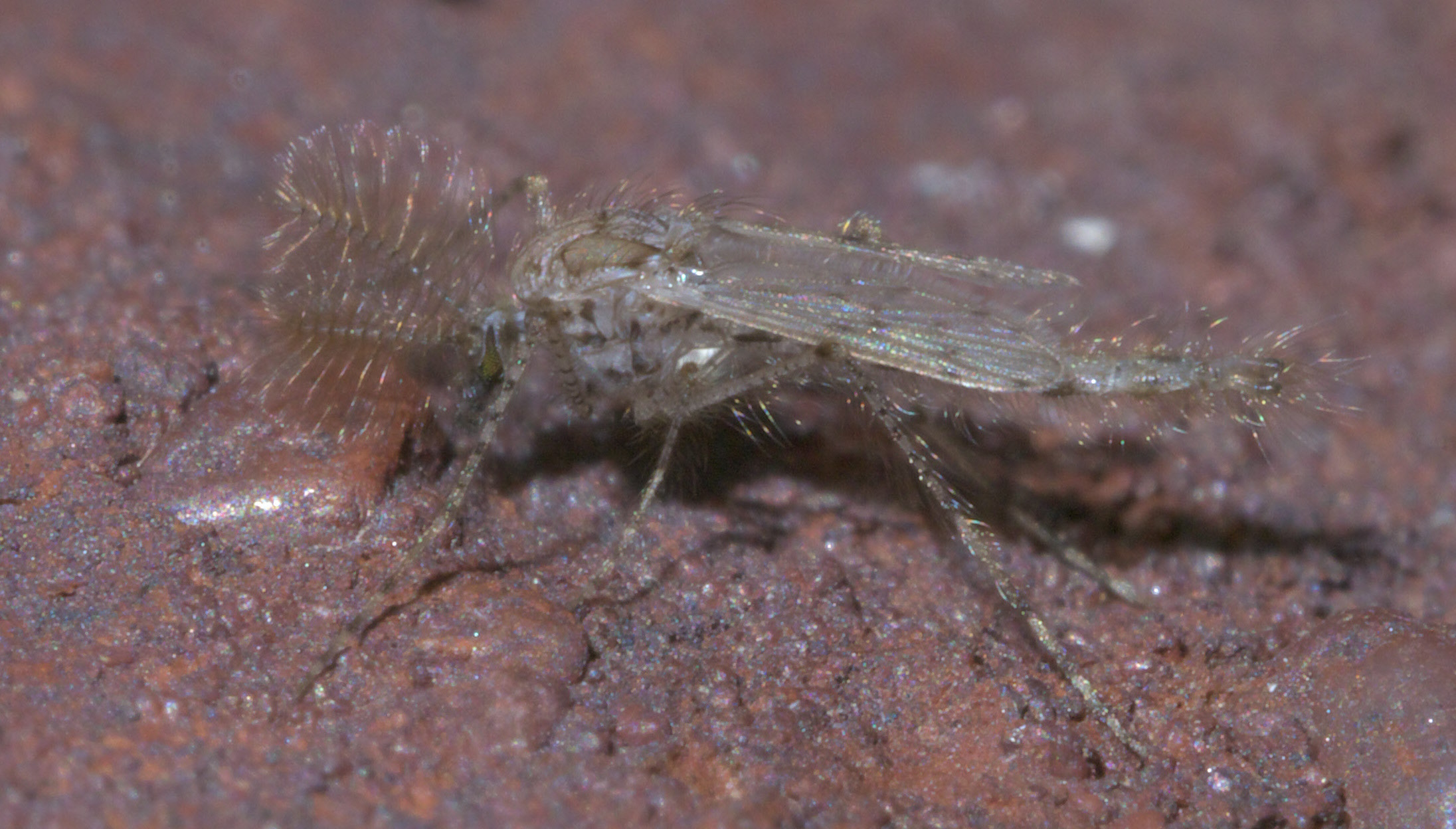 Chaoborus punctipennis, Family: Phantom Midges, It has spotted legs male, Size: 4.5 mm, ID Confidence: 98